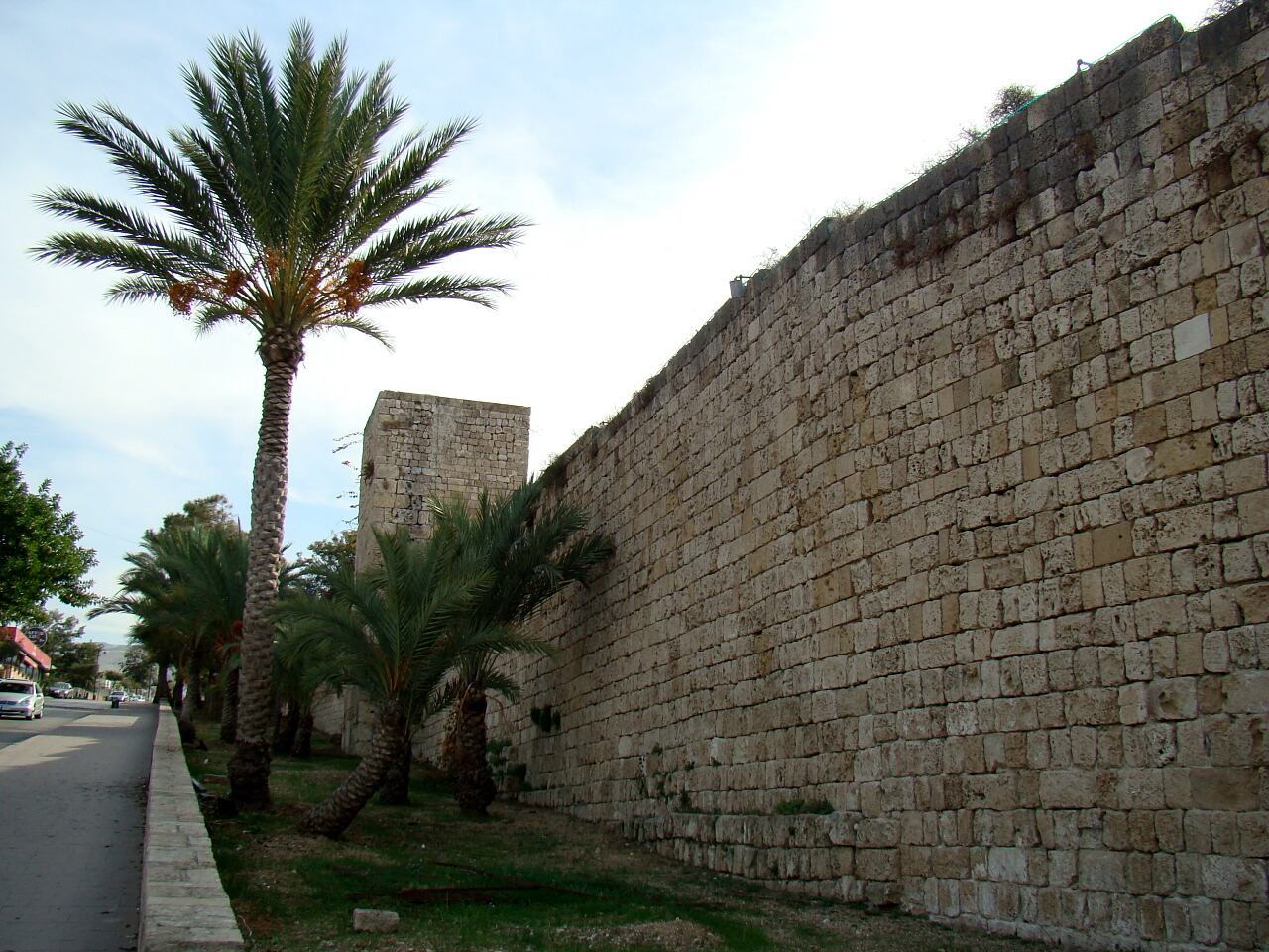 Byblos medieval walls